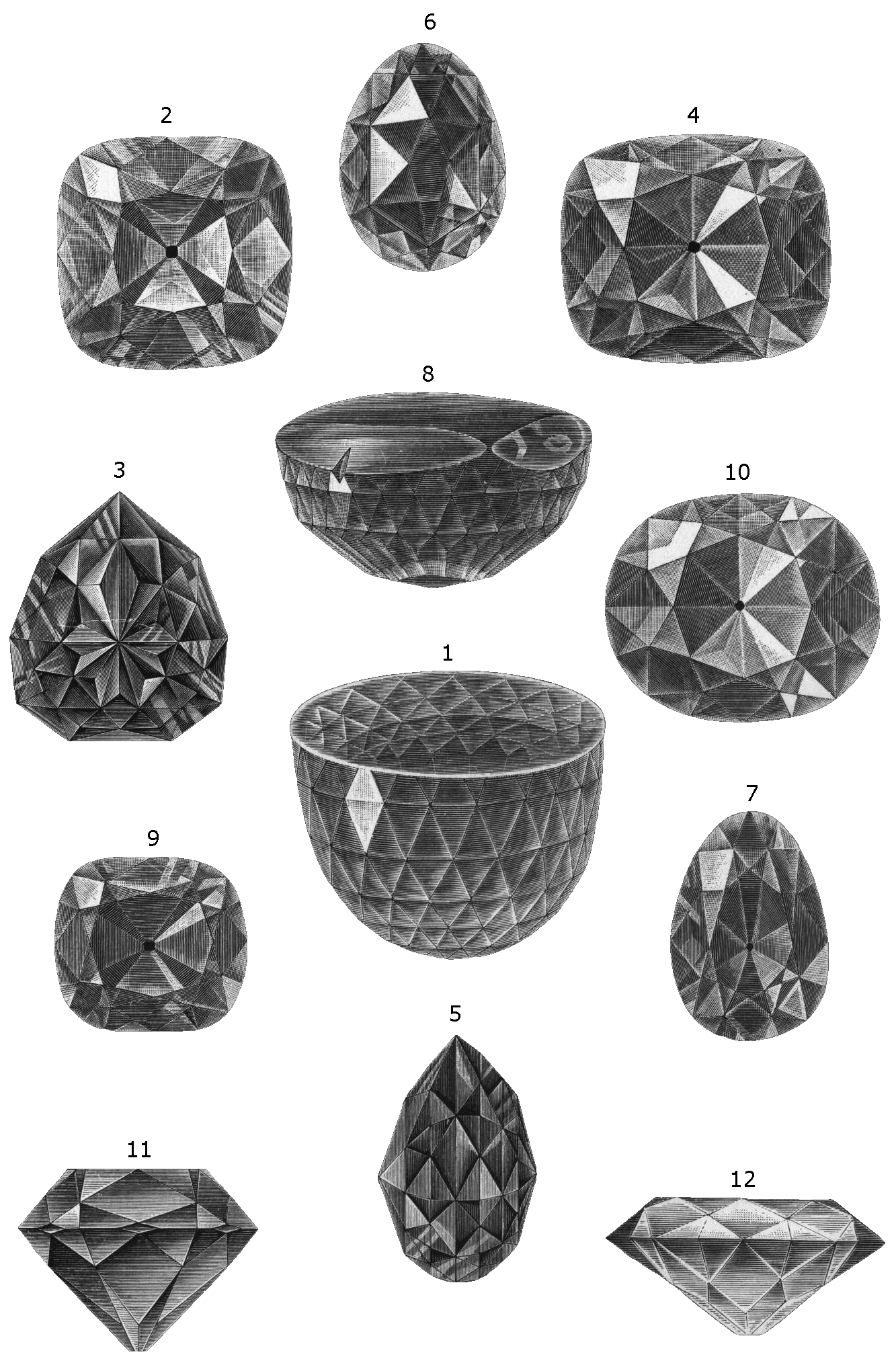 “Some large and famous diamonds”, an illustration from the Swedish encyclopedia Nordisk familjebok 1: Great Mogul Diamond; 2 & 11: Regent Diamond; 3 & 5: Florentine Diamond; 4 & 12: Star of the South; 6: Sancy; 7: Dresden Green Diamond; 8: Koh-i-Noor, original cut (till 1852); 9: Hope Diamond; 10: Koh-i-Noor, current cut (since 1852)